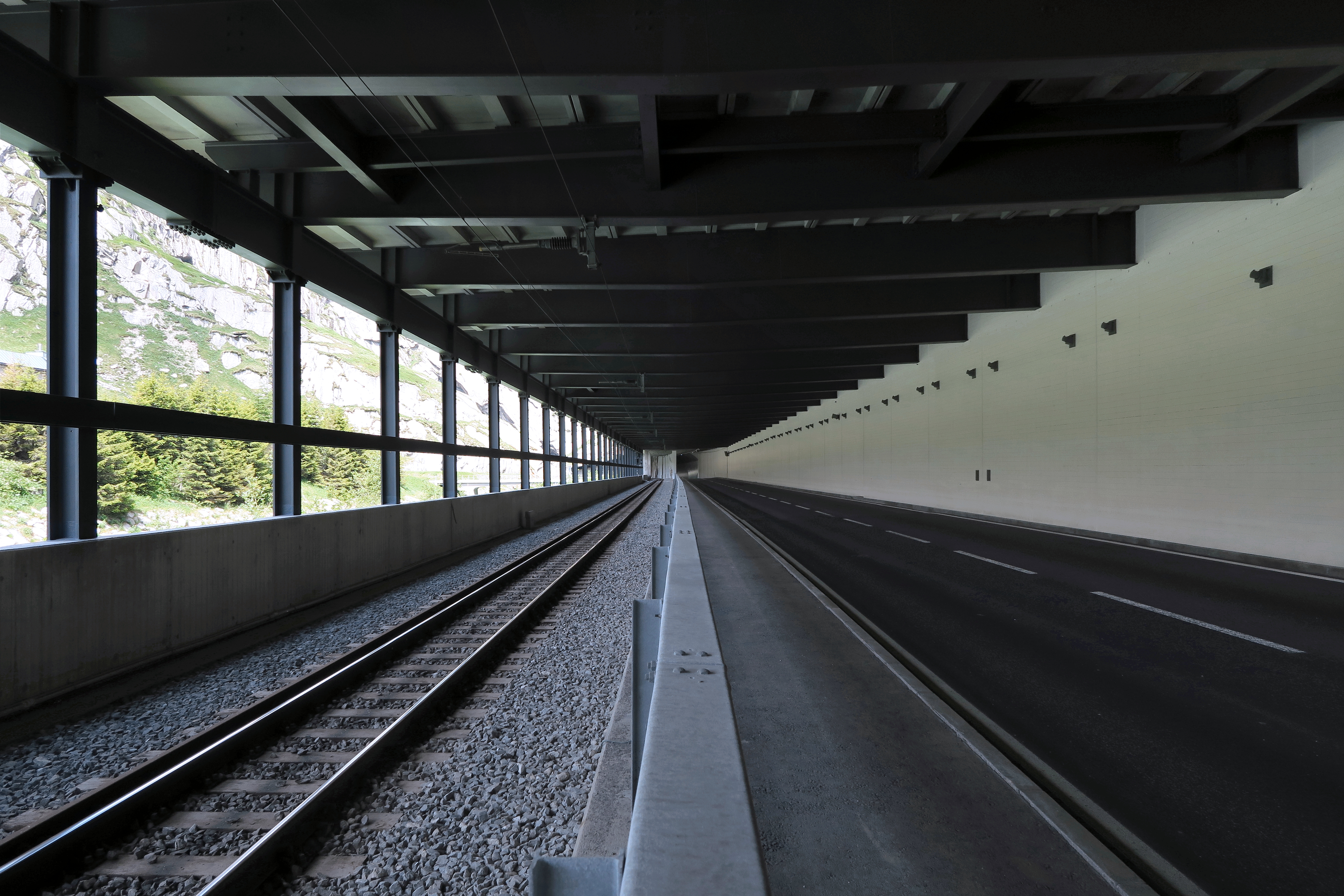 In the 300 m long gallery before the Urnerloch towards Schöllenen Gorge. On the left side the Matterhorn Gotthard Railway runs to Göschenen. Switzerland, June 11, 2015.